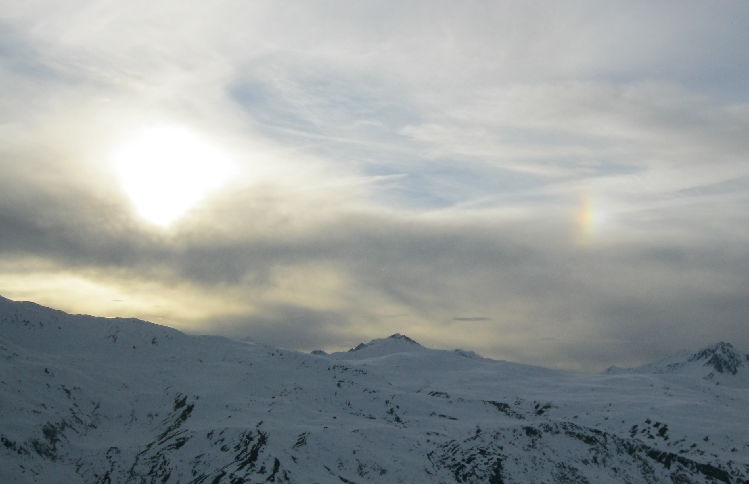 An Alpine sundog in Savoy